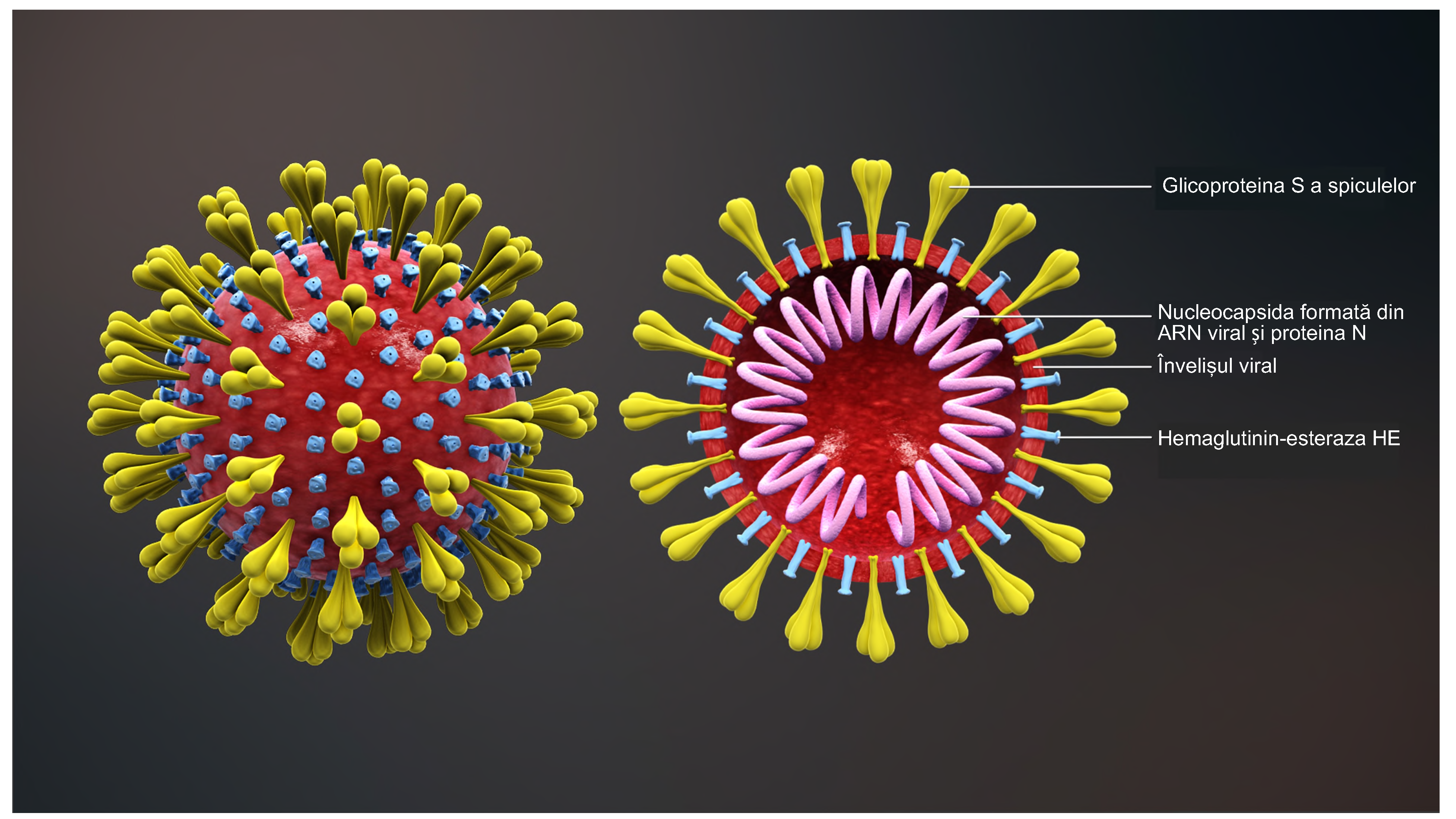 Scheme of a coronavirus